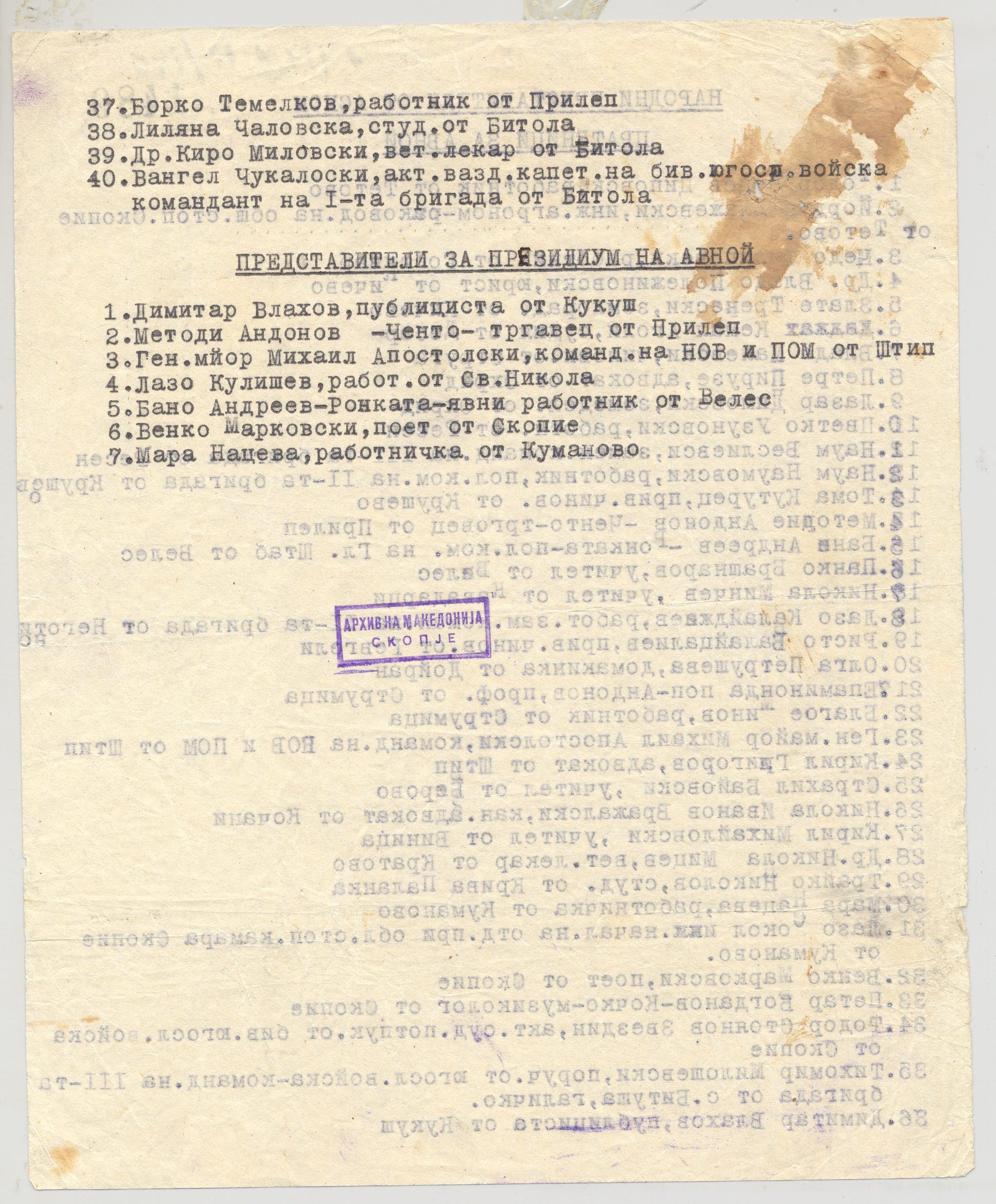 The list of names of delegates for AVNOJ from Macedonia, second page This media file is produced by Wikipedian in Residence in Category:Wikipedian in Residence at DARM in 2016.